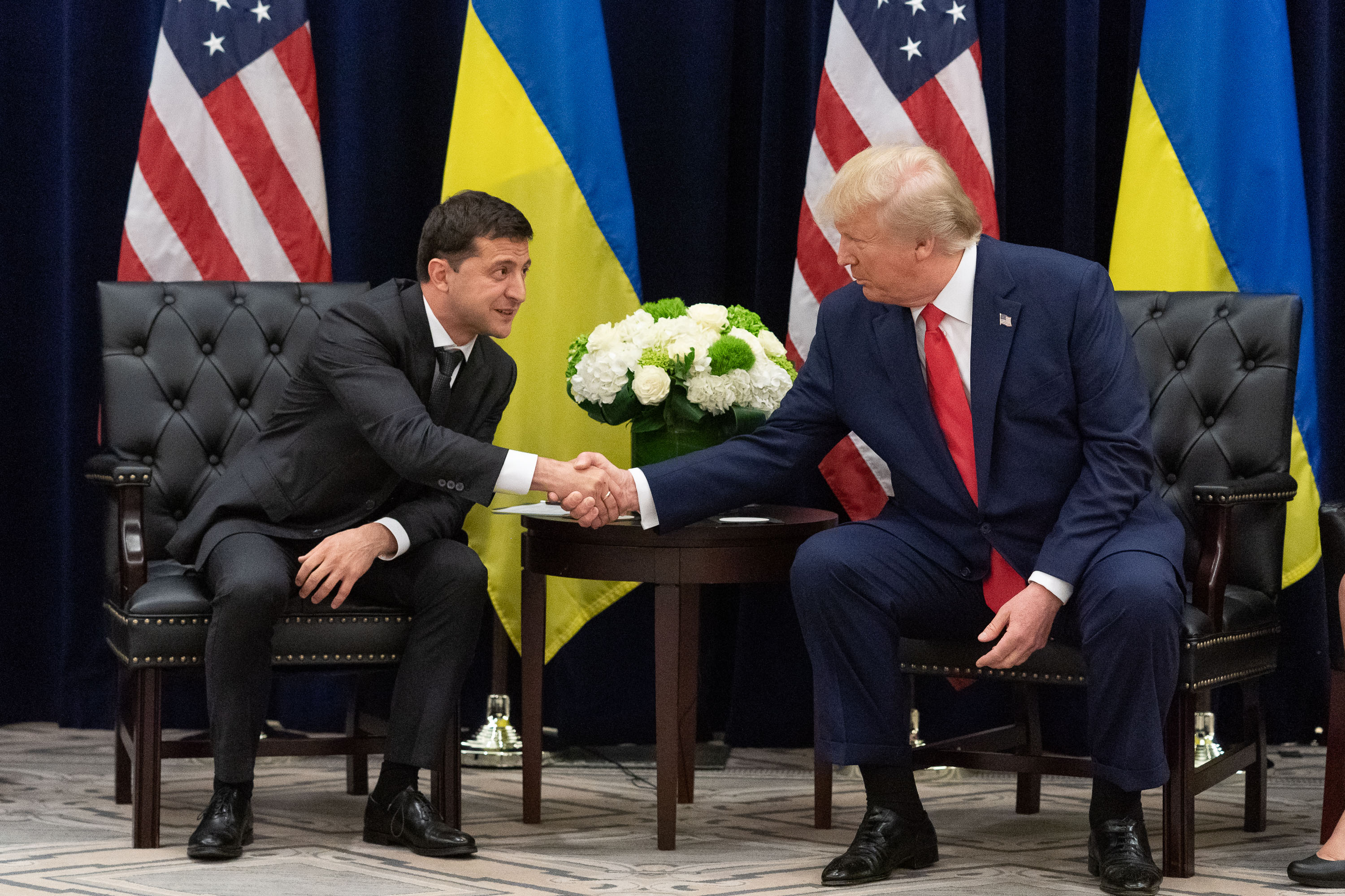 Volodymyr Zelensky and Donald Trump 2019-09-25 01